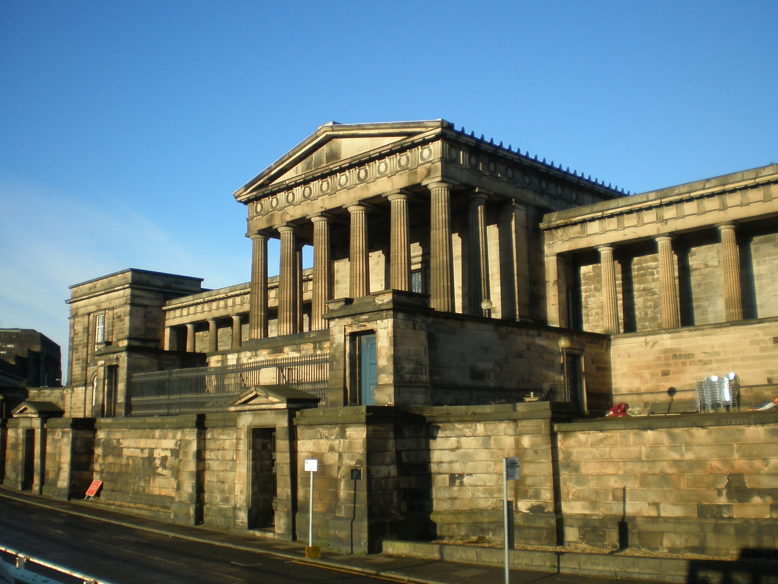 The former Royal High School building, Calton Hill, Edinburgh. Not the Royal Scottish Academy.